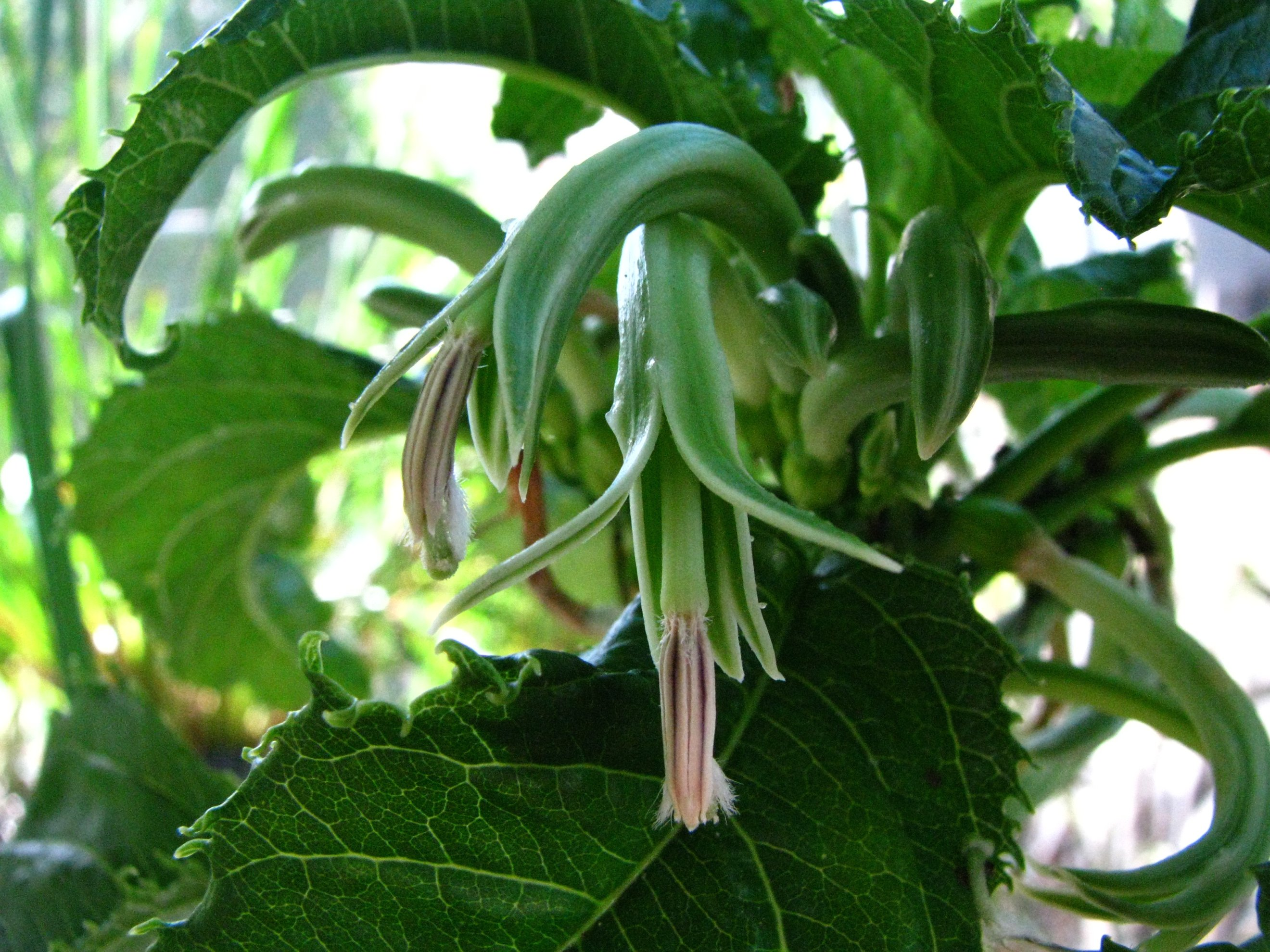 [misnamed as Delissea subcordata] Campanulaceae Endemic to the Hawaiian Islands (Oʻahu only) Endangered Oʻahu (Cultivated)